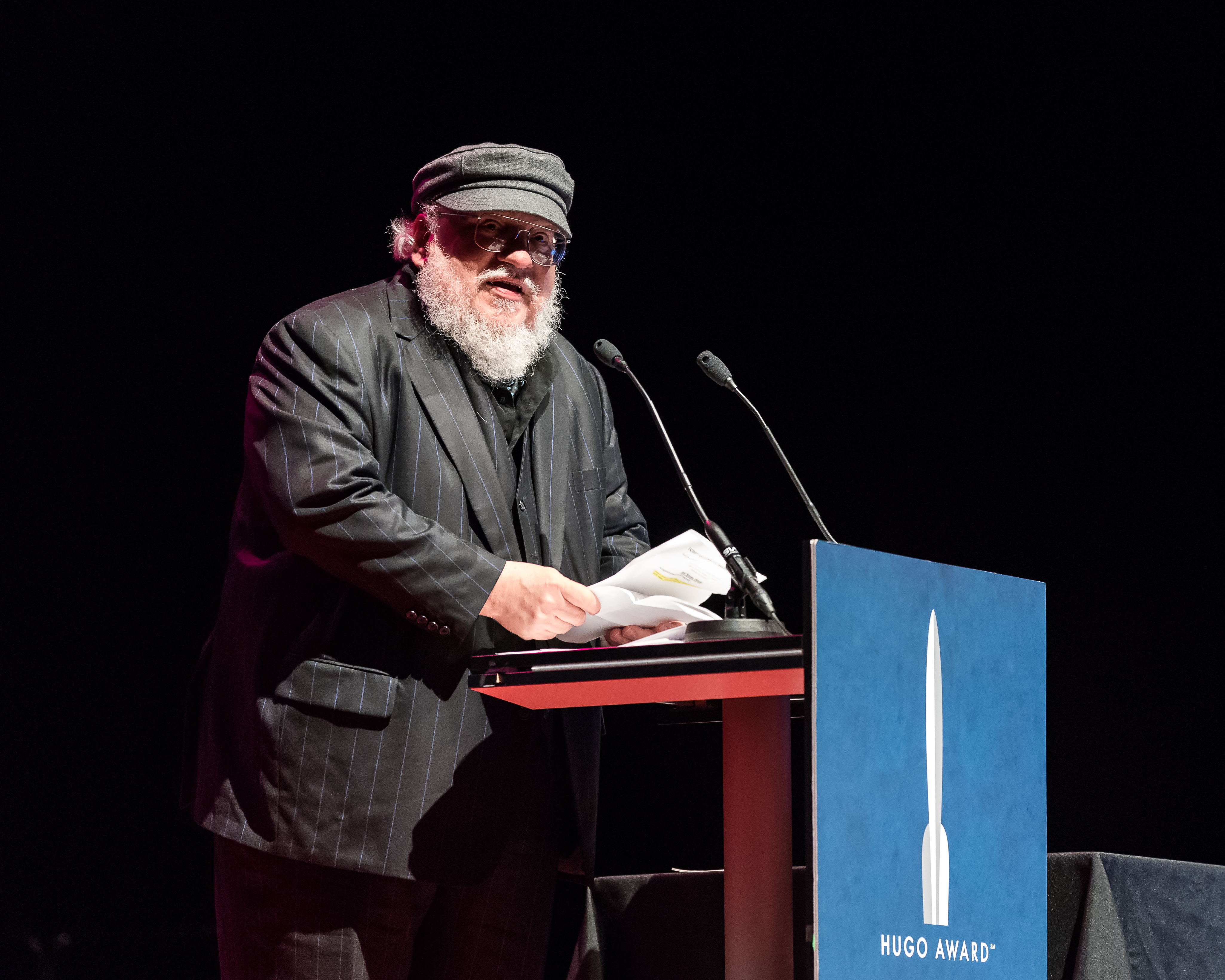 George R.R. Martin, the Hugo Award Ceremony 2017, Worldcon in Helsinki.